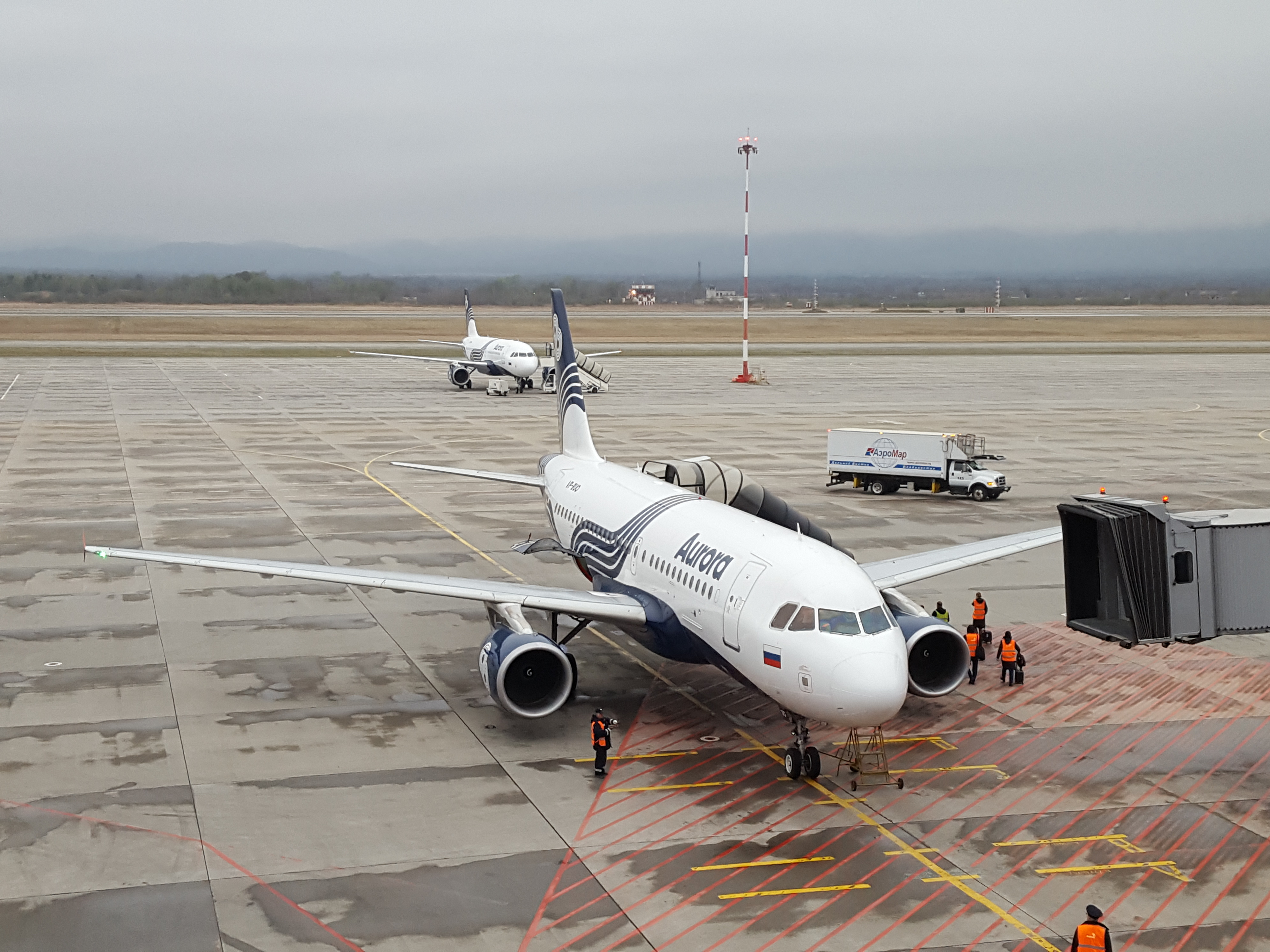 Airbus A319 of Aurora Airlines at Vladivostok Airport in May 2016